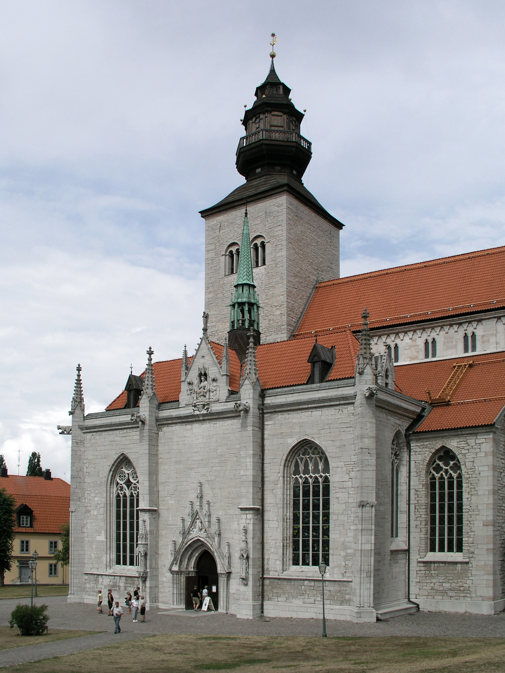 Cathedral Visby Sankta Maria.